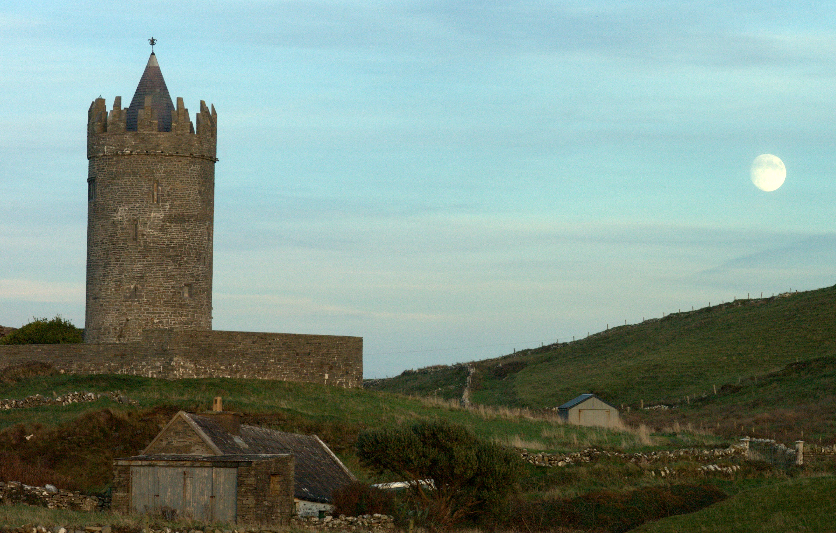 Doonagore Castle, a round tower-house, Doolin, Co Clare, Ireland ,Danny Burke